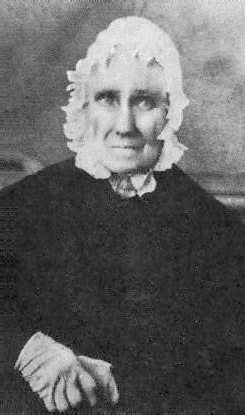 My scanned copy of her pre-1900 photo.Sarah Bush Lincoln (December 13, 1788 - April 12, 1869) was the second wife of Thomas Lincoln and stepmother of President of the United States Abraham Lincoln.